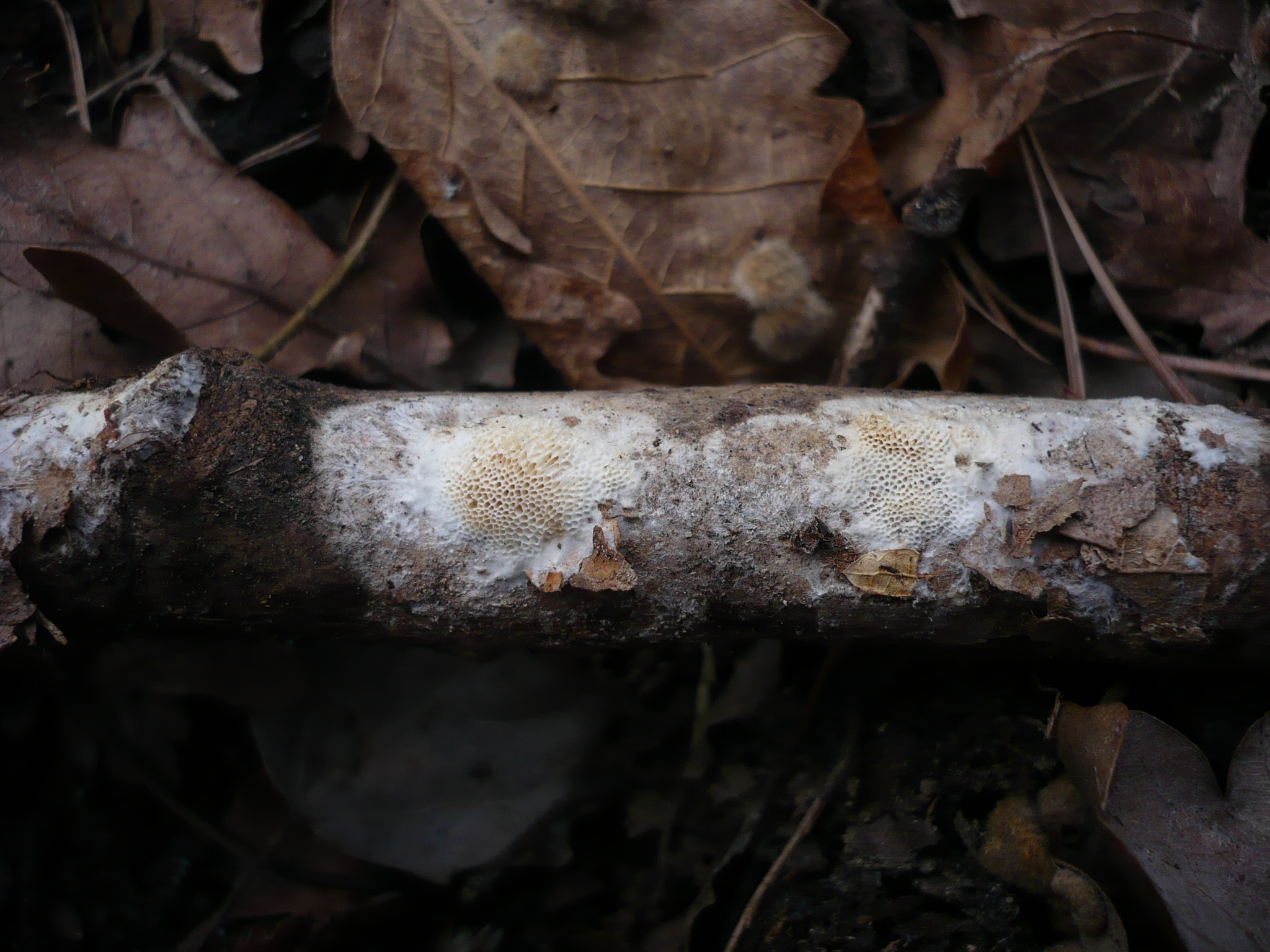 The fungus Ceriporiopsis gilvescens (Bresadola) Domanski. Specimen photographed in Wolfstaudengraben, Marz, Bezirk Mattersburg, Burgenland, Austria.